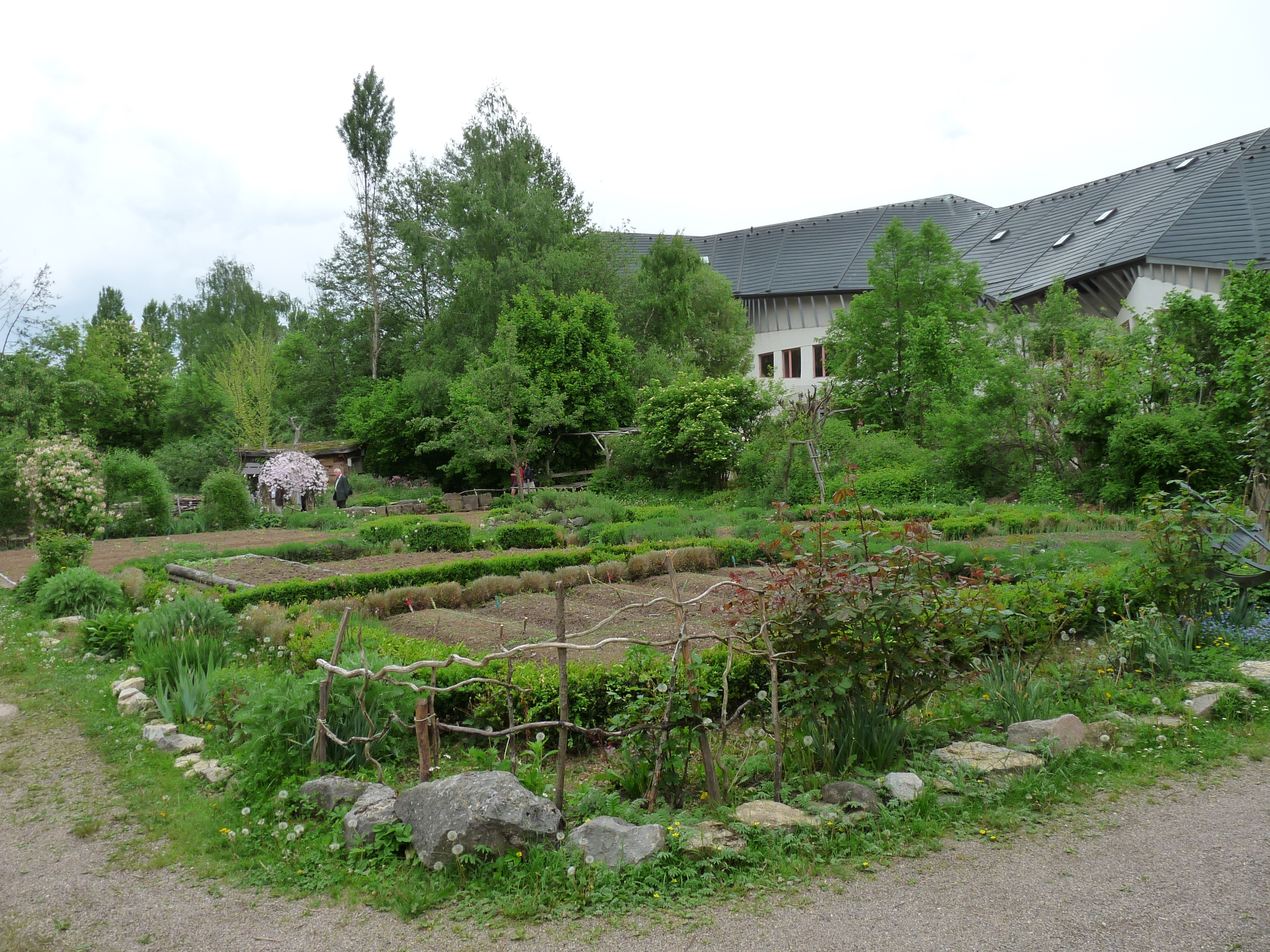 School garden of Steiner School, Schopfheim, Germany